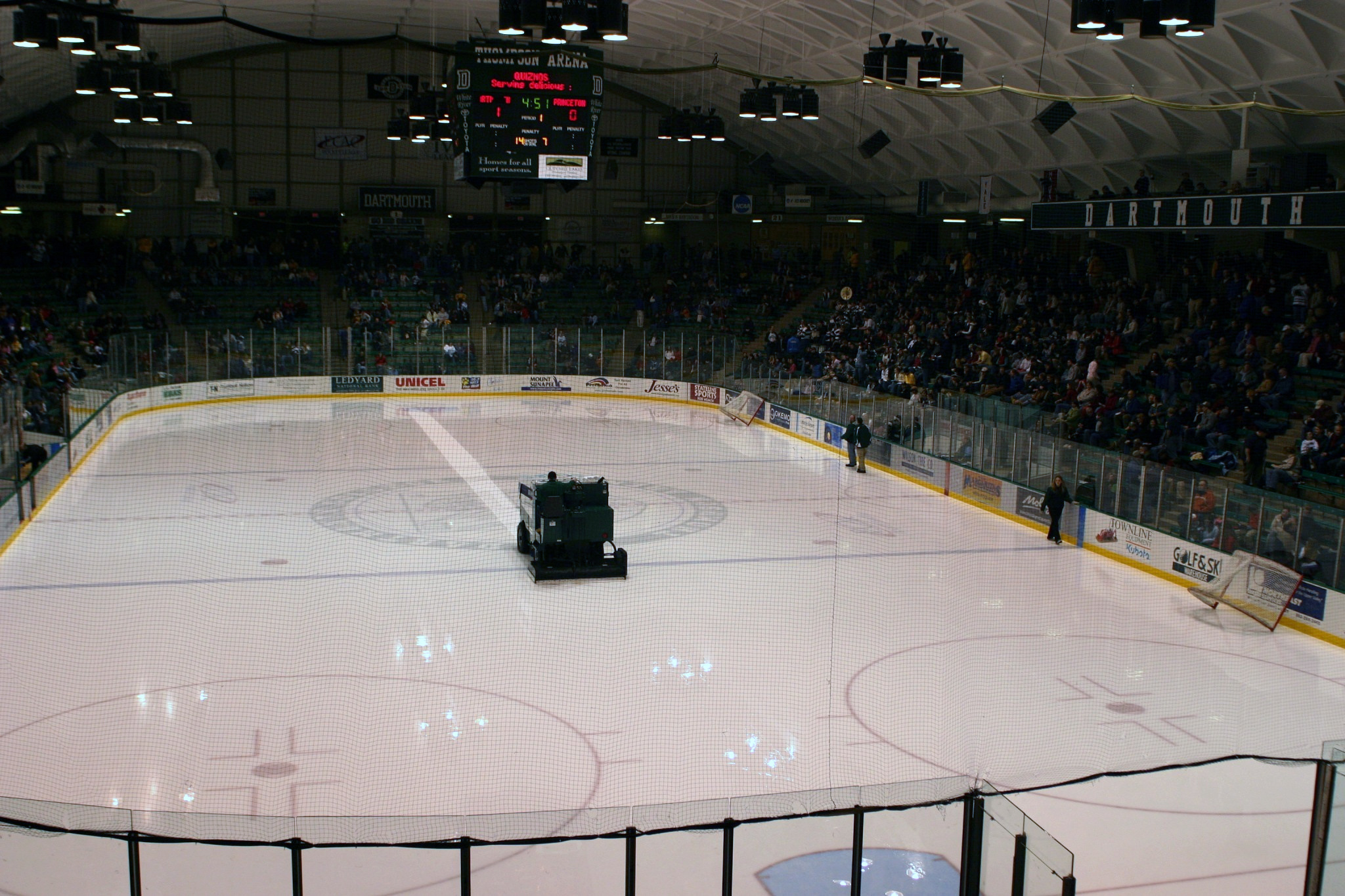 Rupert C. Thompson Arena is a 3,500-seat hockey arena in Hanover, New Hampshire. It is home to the Dartmouth College Big Green men's and women's ice hockey teams.